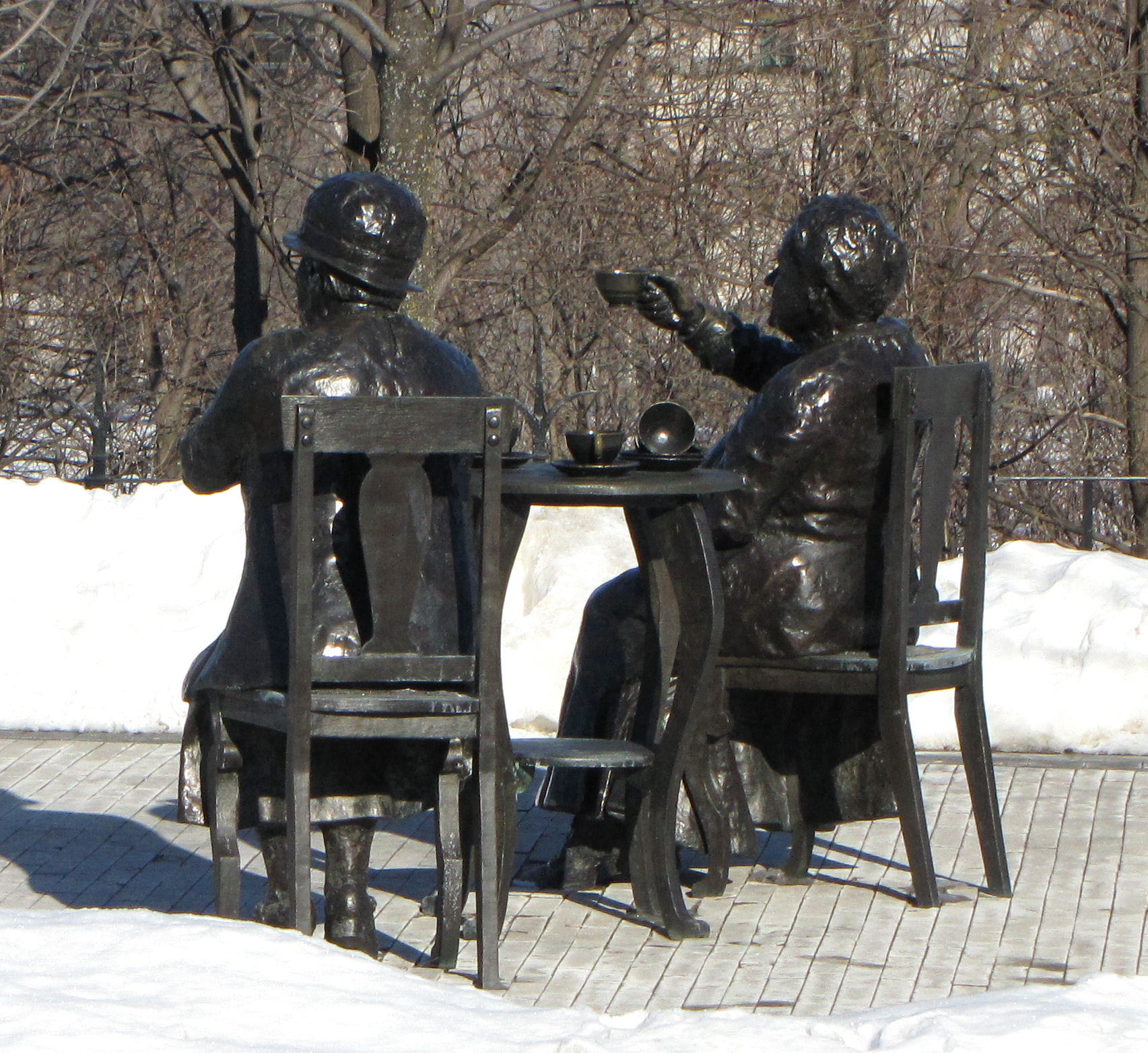 Louise McKinney and Henrietta Muir Edwards (arm up), Famous Five statue, Parliament Hill, Ottawa, Ontario, Canada